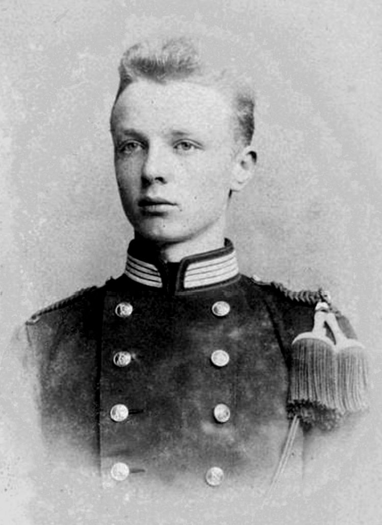 H.S. de Roode, c. 1898